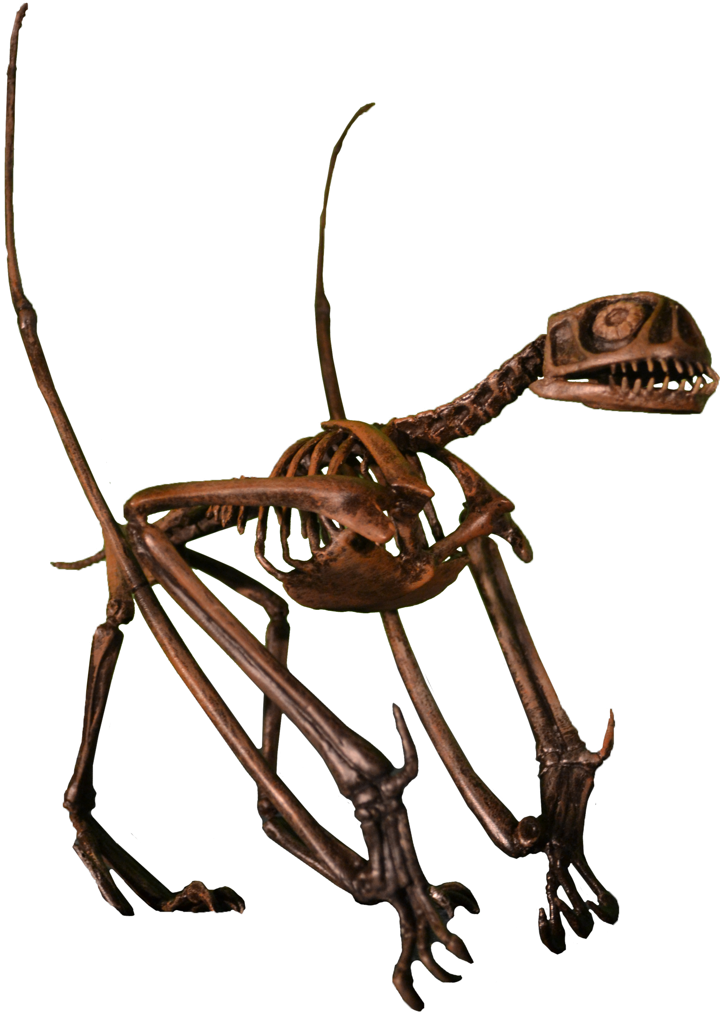 Mounted Jeholopterus three-dimensional reconstruction